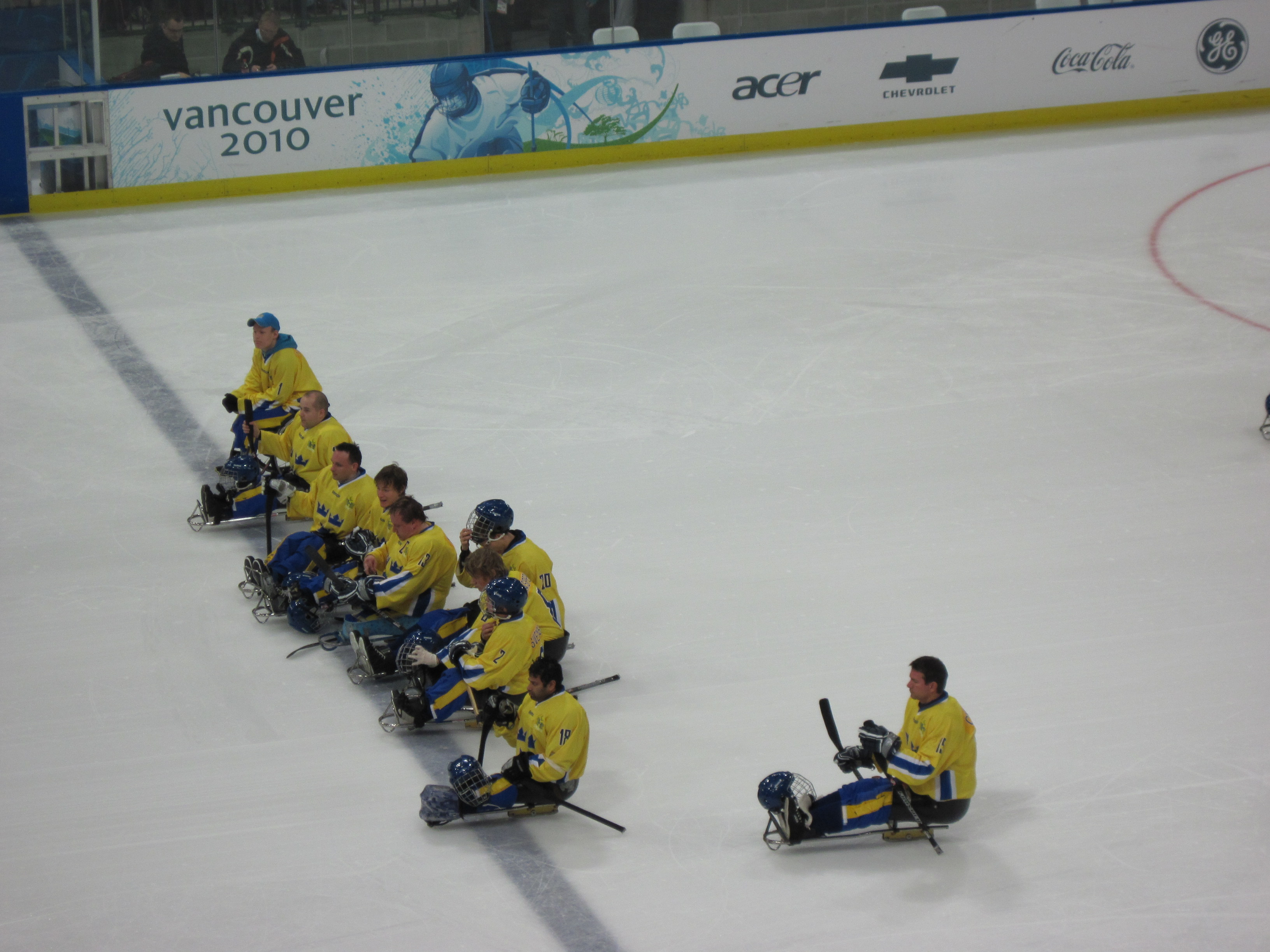 Sweden's Ice Sledge Hockey team at the UBC Thunderbird Winter Sports Centre, Vancouver, British Columbia, Canada, during the Winter Paralympics 2010.